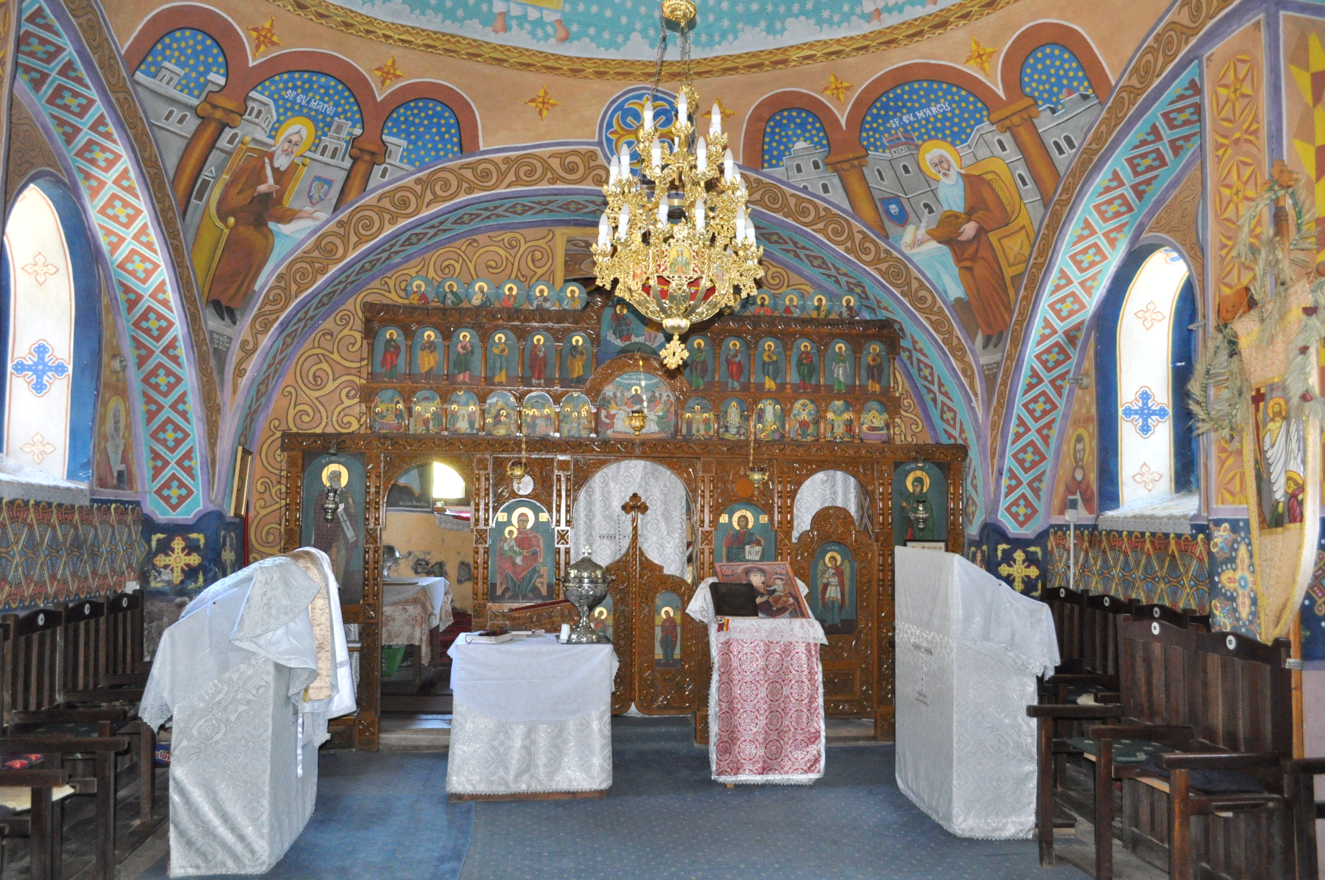 Saint Paraskeva's church in Ampoița, Alba county, Romania